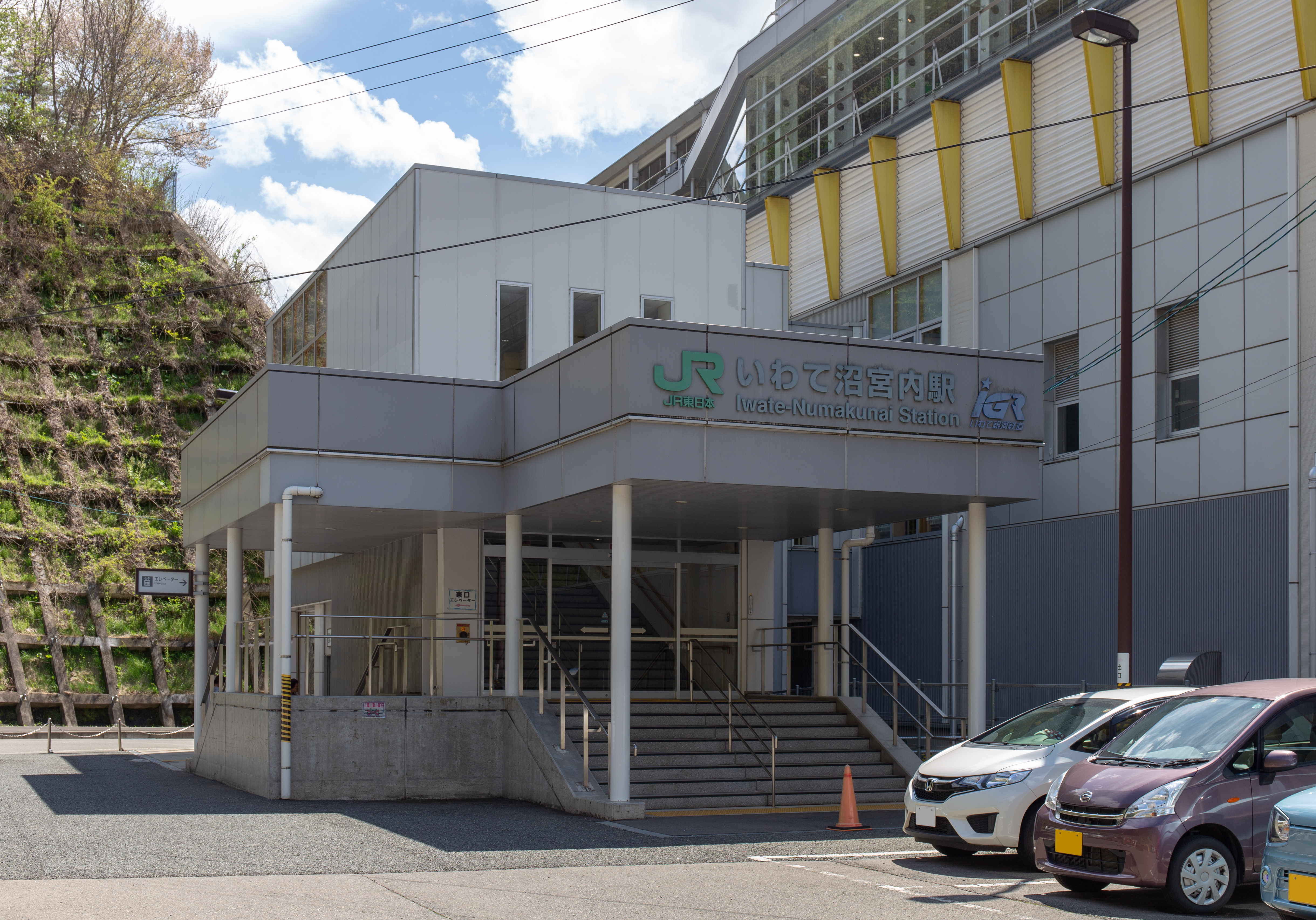 Iwate-Numakunai Station east side